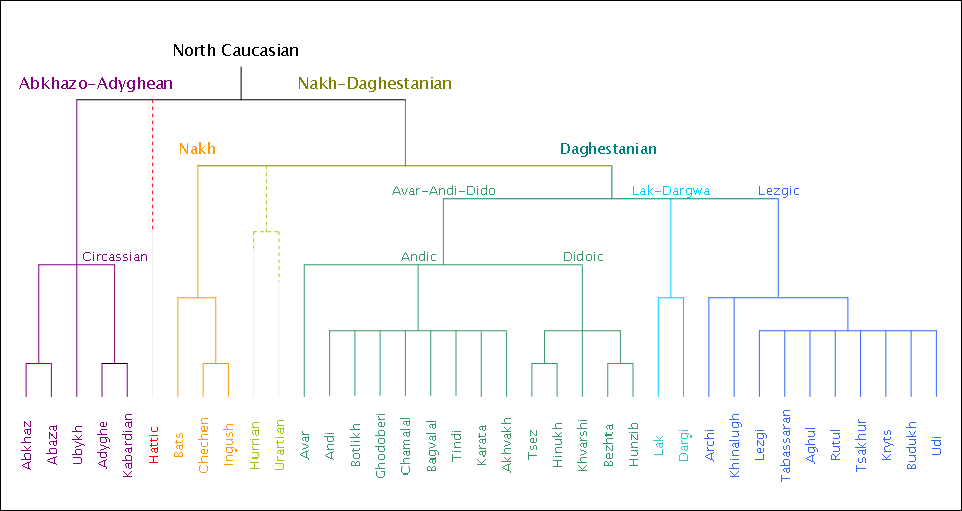 This tree is based on the information in Nikolayev, Sergei & Starostin, Sergei. 1994. A North Caucasian Etymological Dictionary. Moscow: Asterisk.